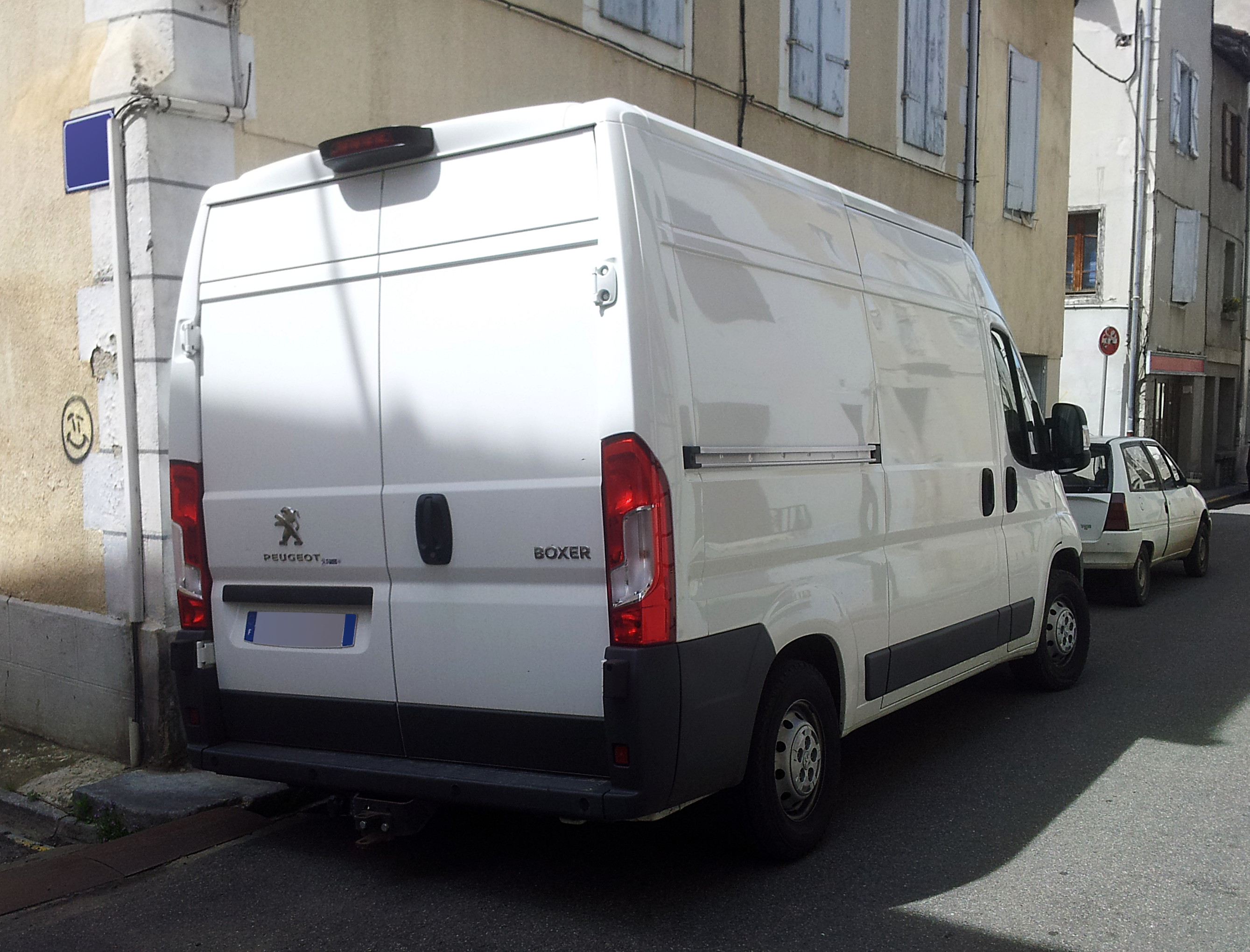 2014 Peugeot Boxer L2H2: 5.41 m (213.0 in) long x 2.52 m (99.2 in) high.